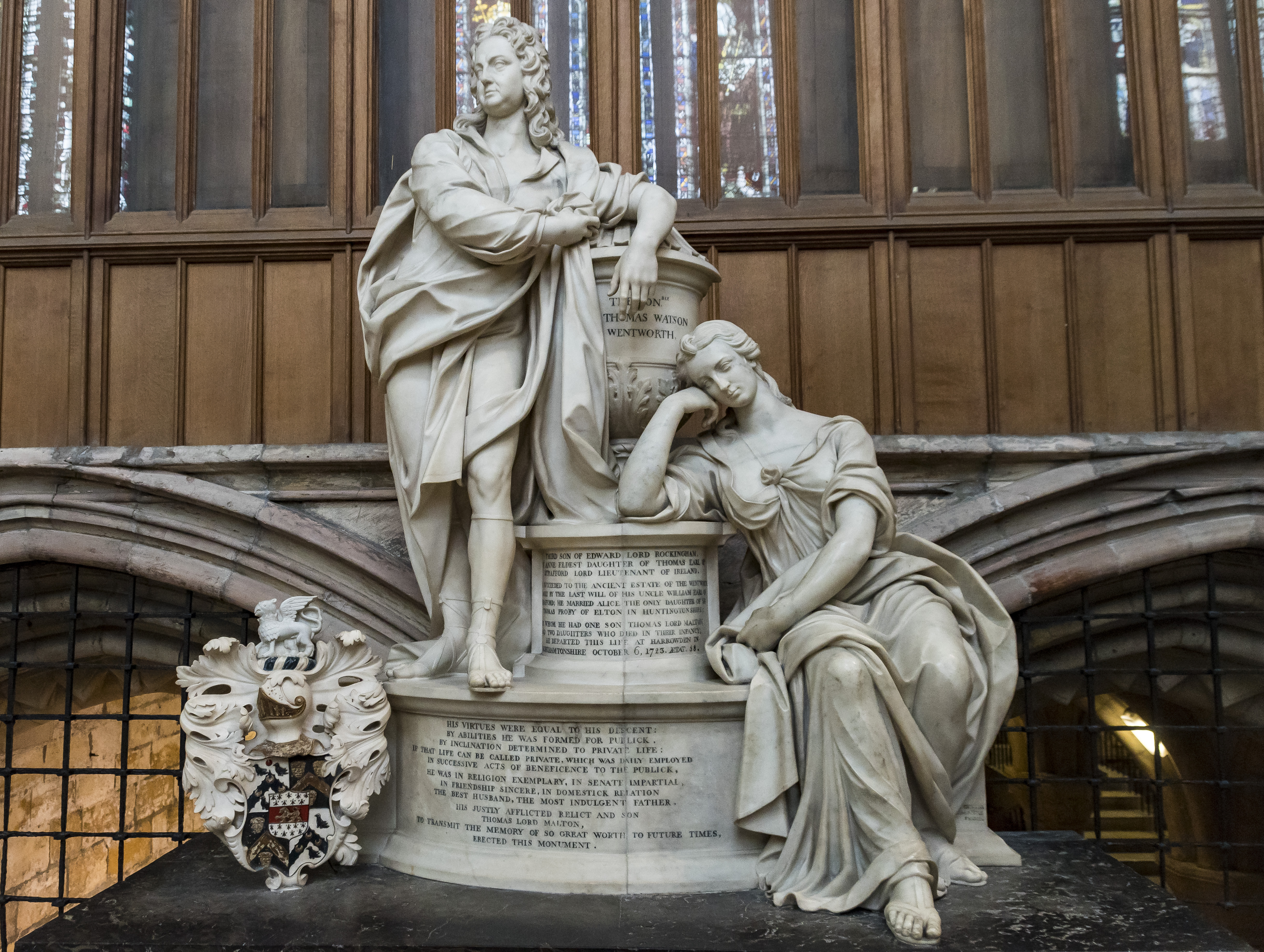 Memorial to Hon. Thomas Watson, later known as Thomas Watson-Wentworth (17 June 1665 – 6 October 1723), of Wentworth Woodhouse, Yorkshire, third son of Edward Watson, 2nd Baron Rockingham and his wife Anne Wentworth, daughter of Thomas Wentworth, 1st Earl of Strafford. He married Alice Proby, only daughter and heiress of Sir Thomas Proby, 1st Baronet. Arms: Watson quartering Wentworth with inescutcheon of pretence of Proby. Sculpted by Guelfi.